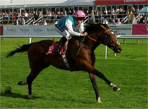 Frankel (British racehorse) winning at Doncaster, September 2010.